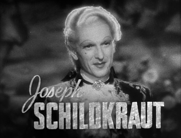 Cropped screenshot of Joseph Schildkraut from the trailer for the film Marie Antoinette